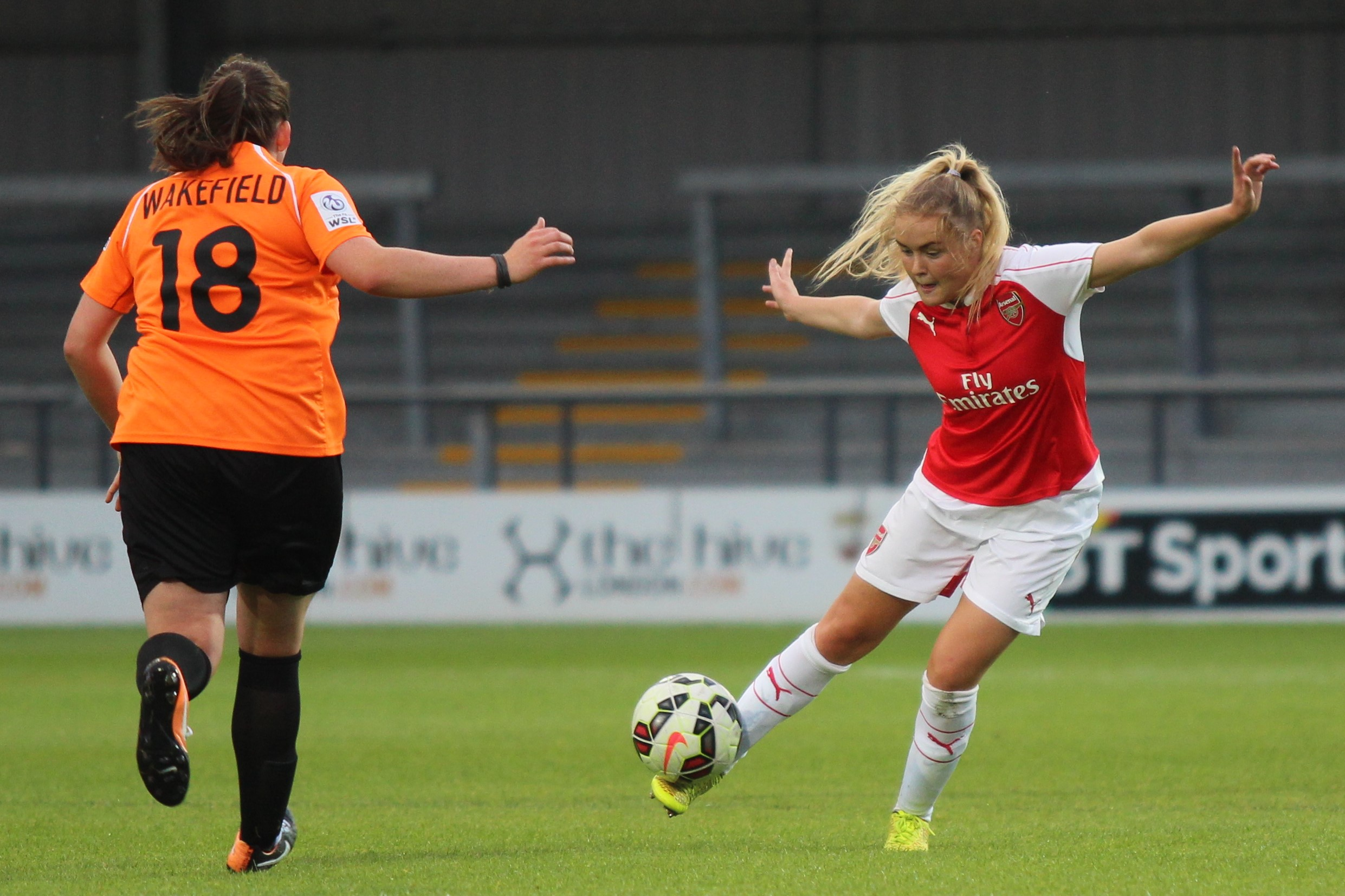 Charlie Devlin of Arsenal Ladies on the ball during the game against London Bees.